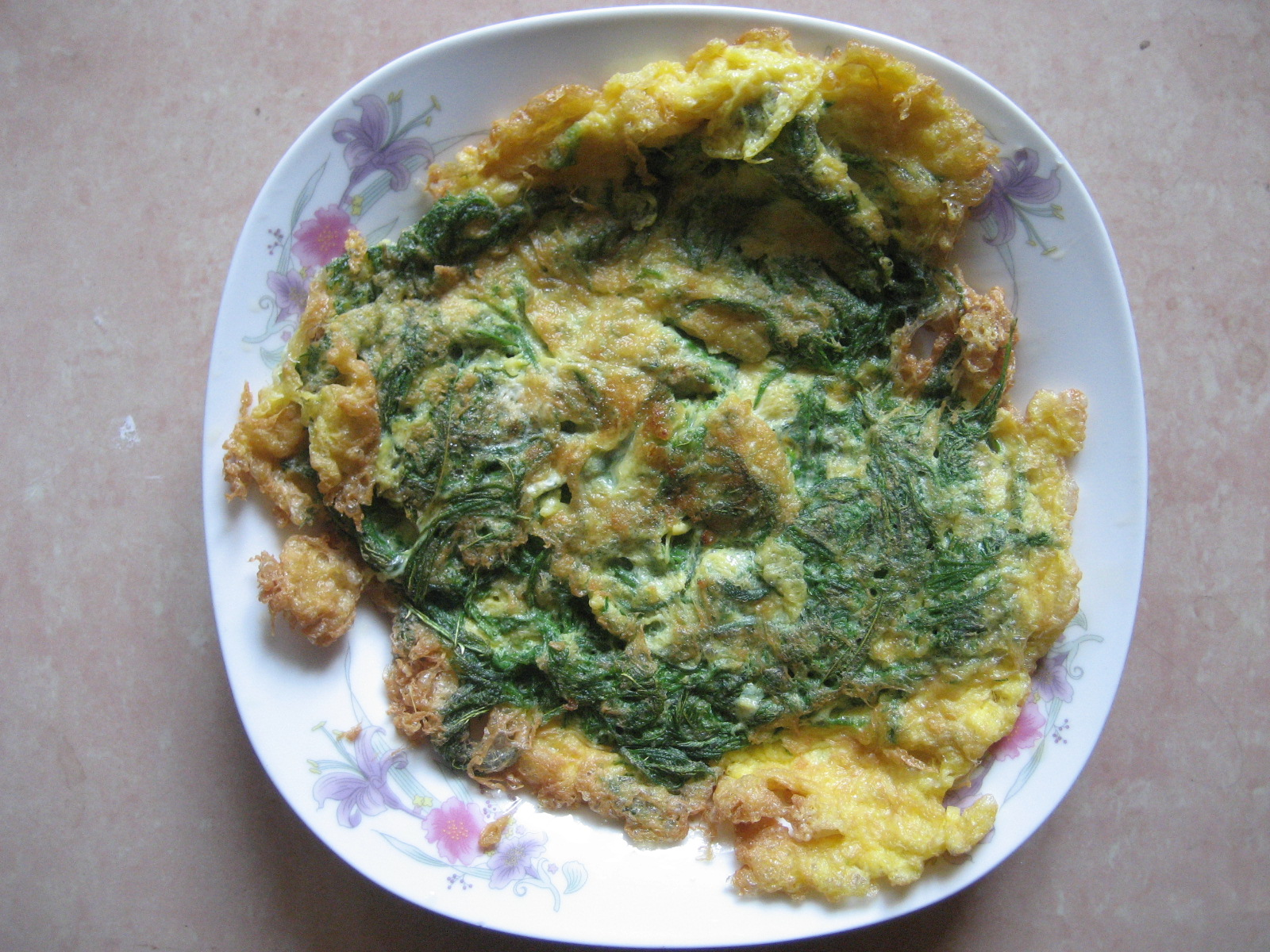 Cha-om omelette - a popular dish with Burmese ladies